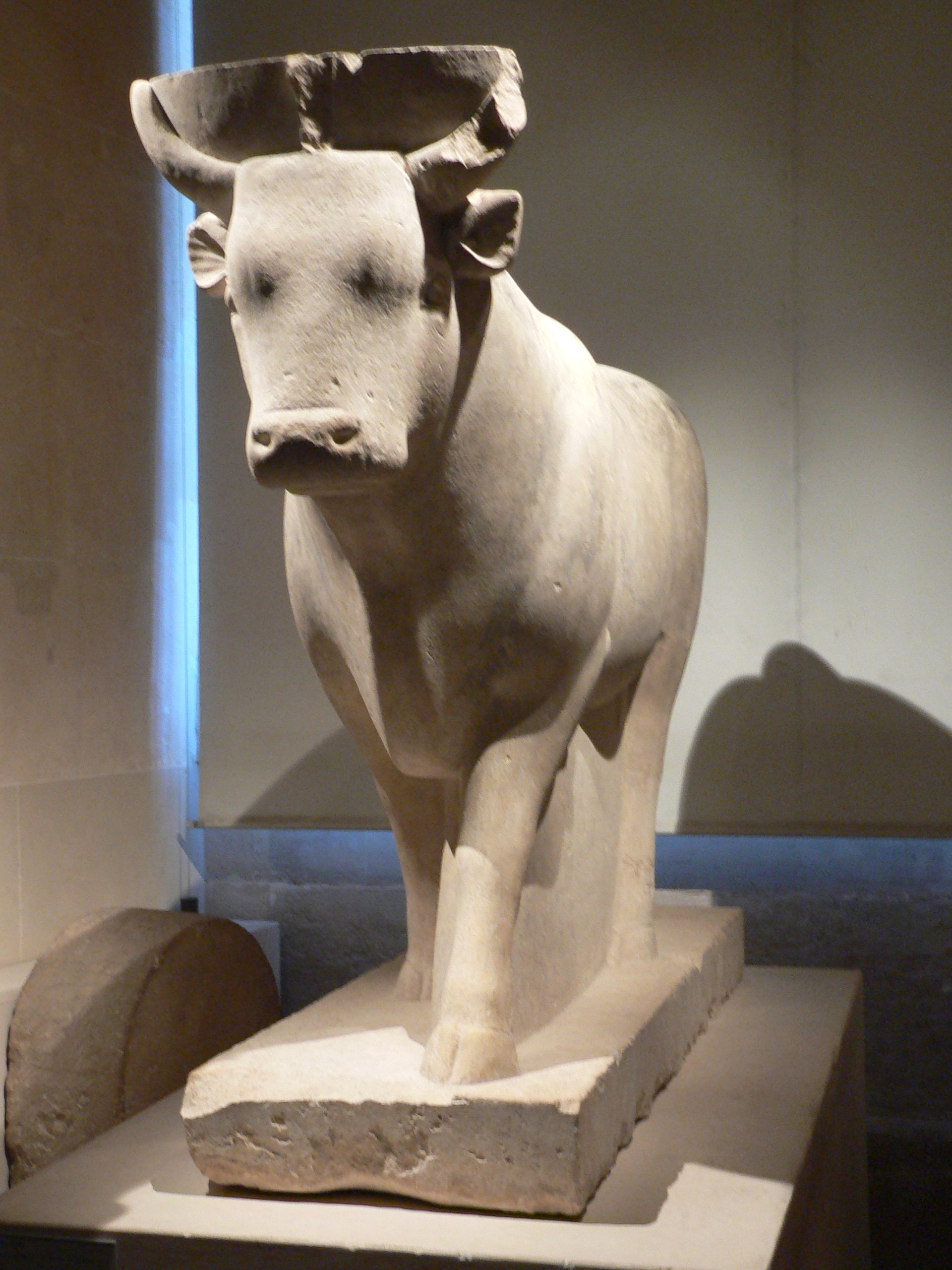 Sacred bull Apis. Limestone (originally painted), days of Nectenabo I (?), 30th Dynasty. Found at the Serapeum of Saqqarah, in a chapel next to the processional way leading to the catacombs of the sacred bulls.